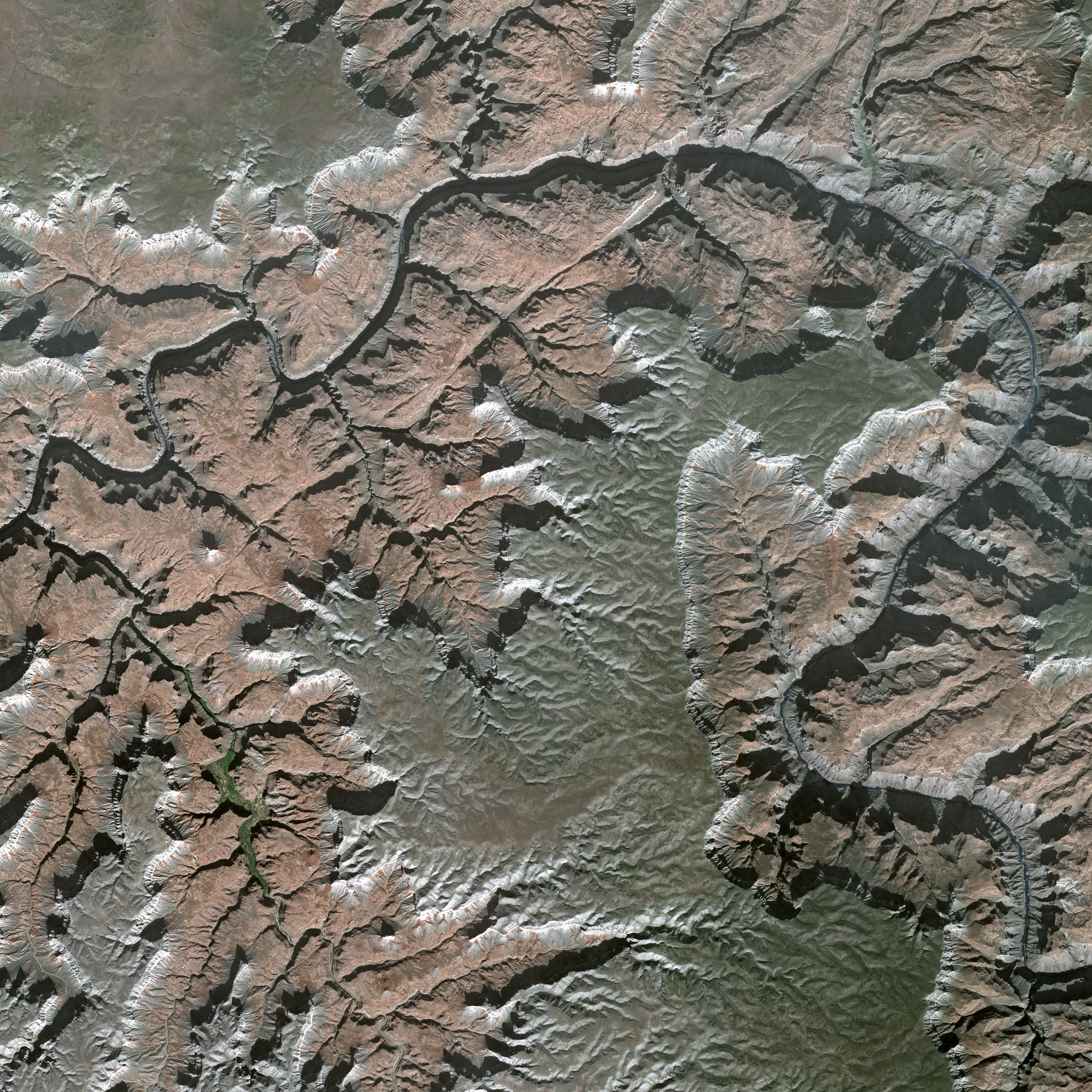 Grand Canyon by SPOT Satellite